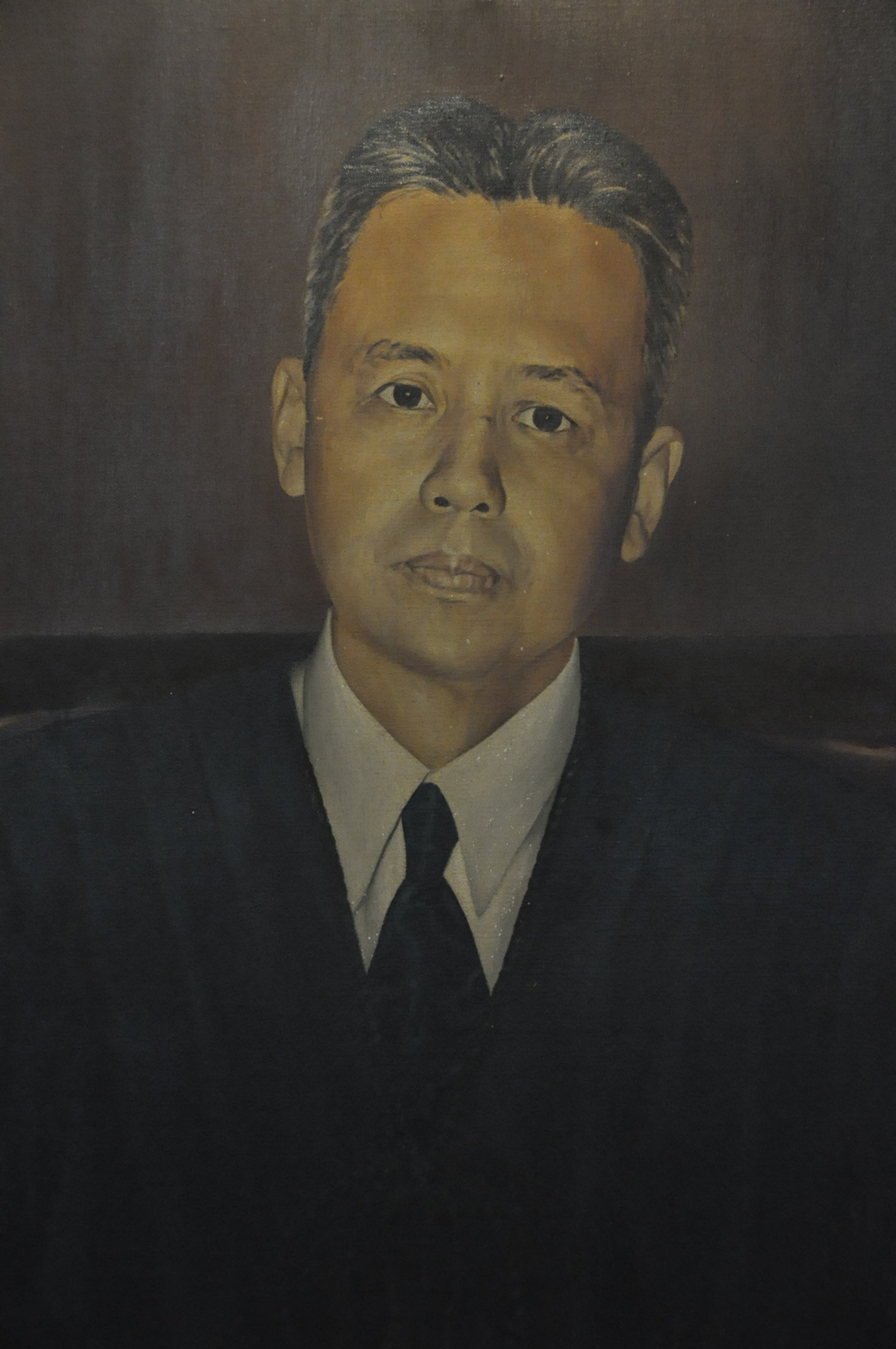 Jose Abad Santos was the fifth Chief Justice of the Supreme Court of the Philippines. He briefly served as the Acting President of the Commonwealth of the Philippines and Acting Commander in Chief of the Armed Forces of the Philippines and the Philippine Commonwealth Army during World War II, in behalf of President Quezon after the government went in exile to the United States. After about two months, he was killed by the Japanese forces for refusing to cooperate during their occupation of the country.